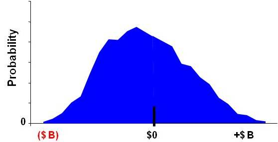 Datar Mathews Real Option Method Wikipedia Fig 2A Net Profit Present Value Distribution